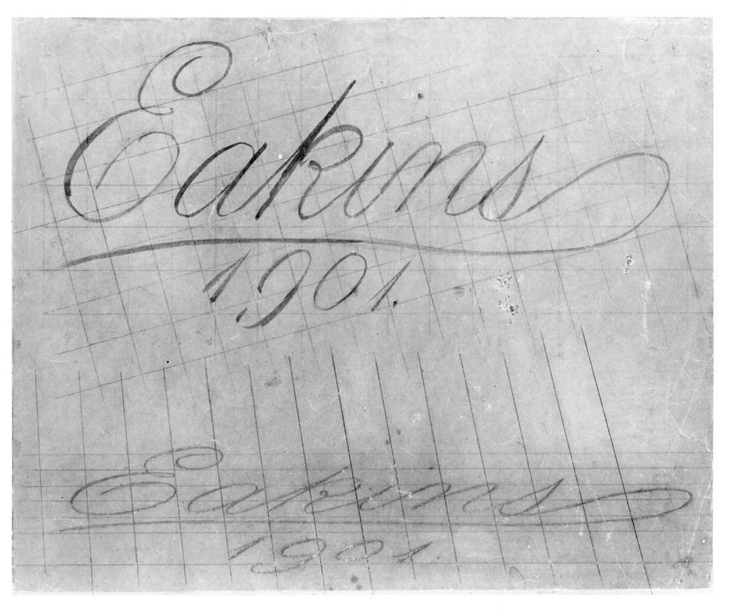 Thomas Eakins signature for "Professor Leslie W. Miller", G-349-A